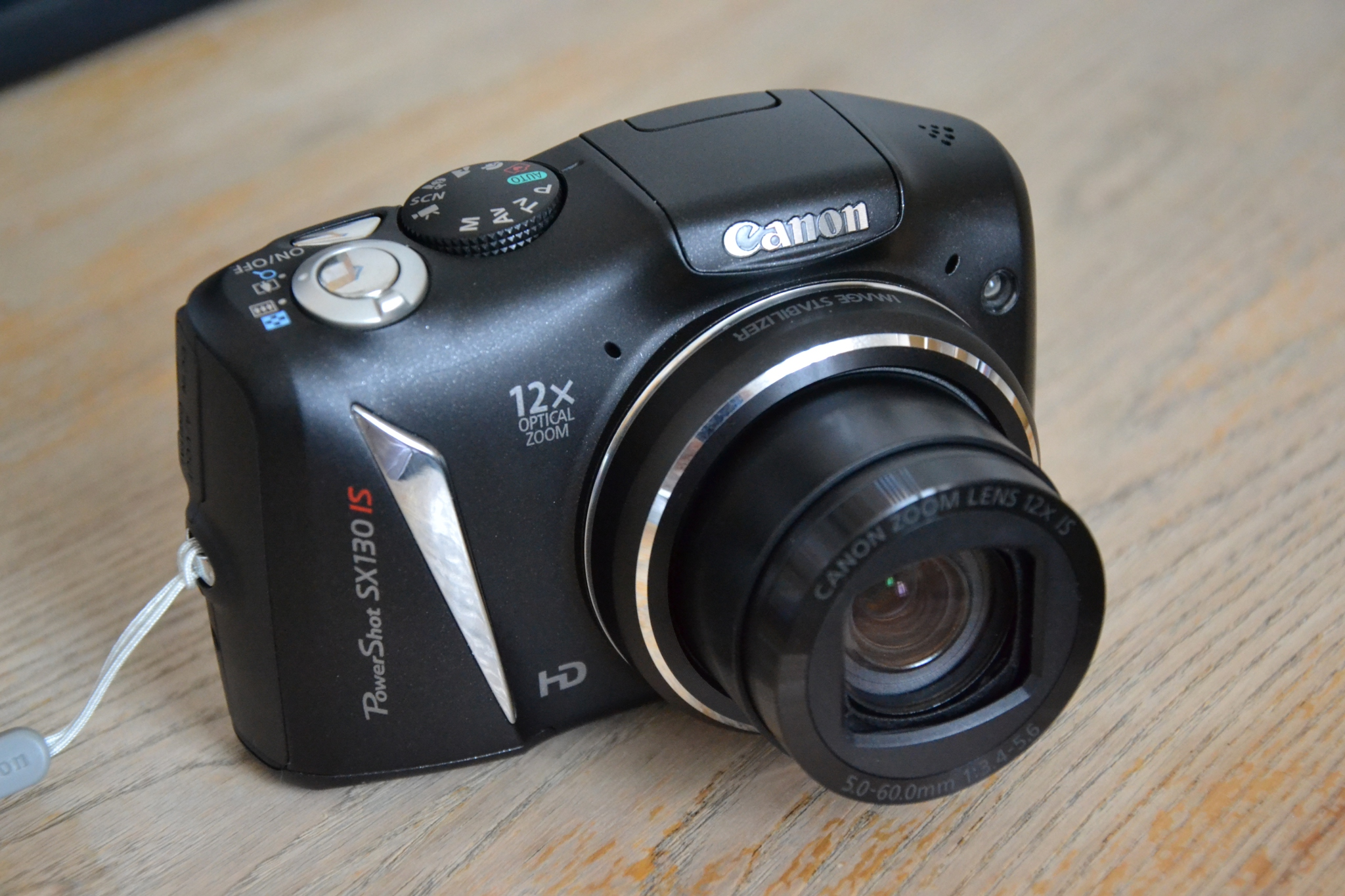 Canon PowerShot SX130 IS